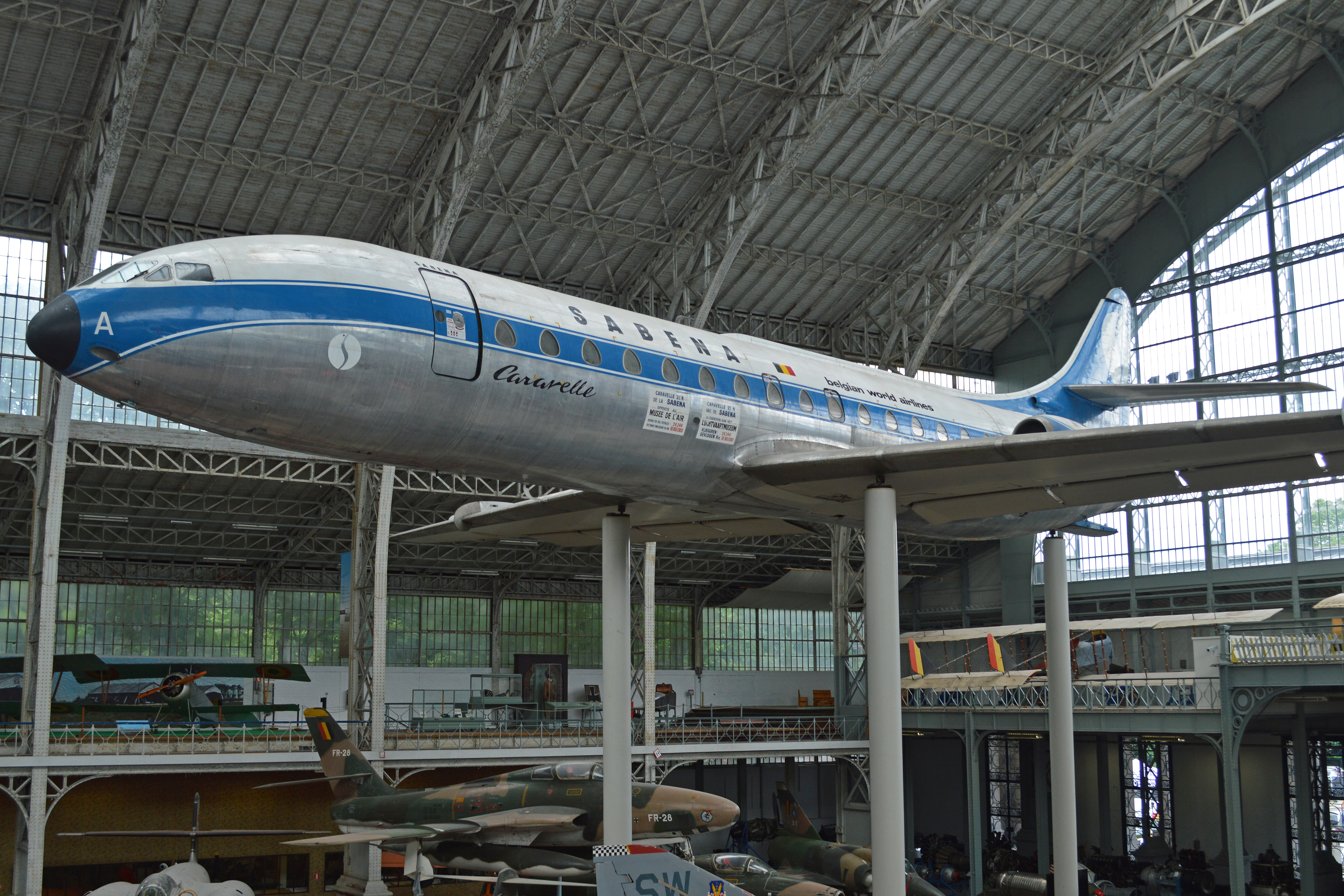 c/n 64. Built 1961. Flew entire career with SABENA until retired in late 1974 after six months leased to Tunisair. Donated in 1977, it remains on display at the Musee Royal de l'Armee et d'Histoire Militaire (usually known as the Brussels Air Museum), Brussels, Belgium. 26th June 2016